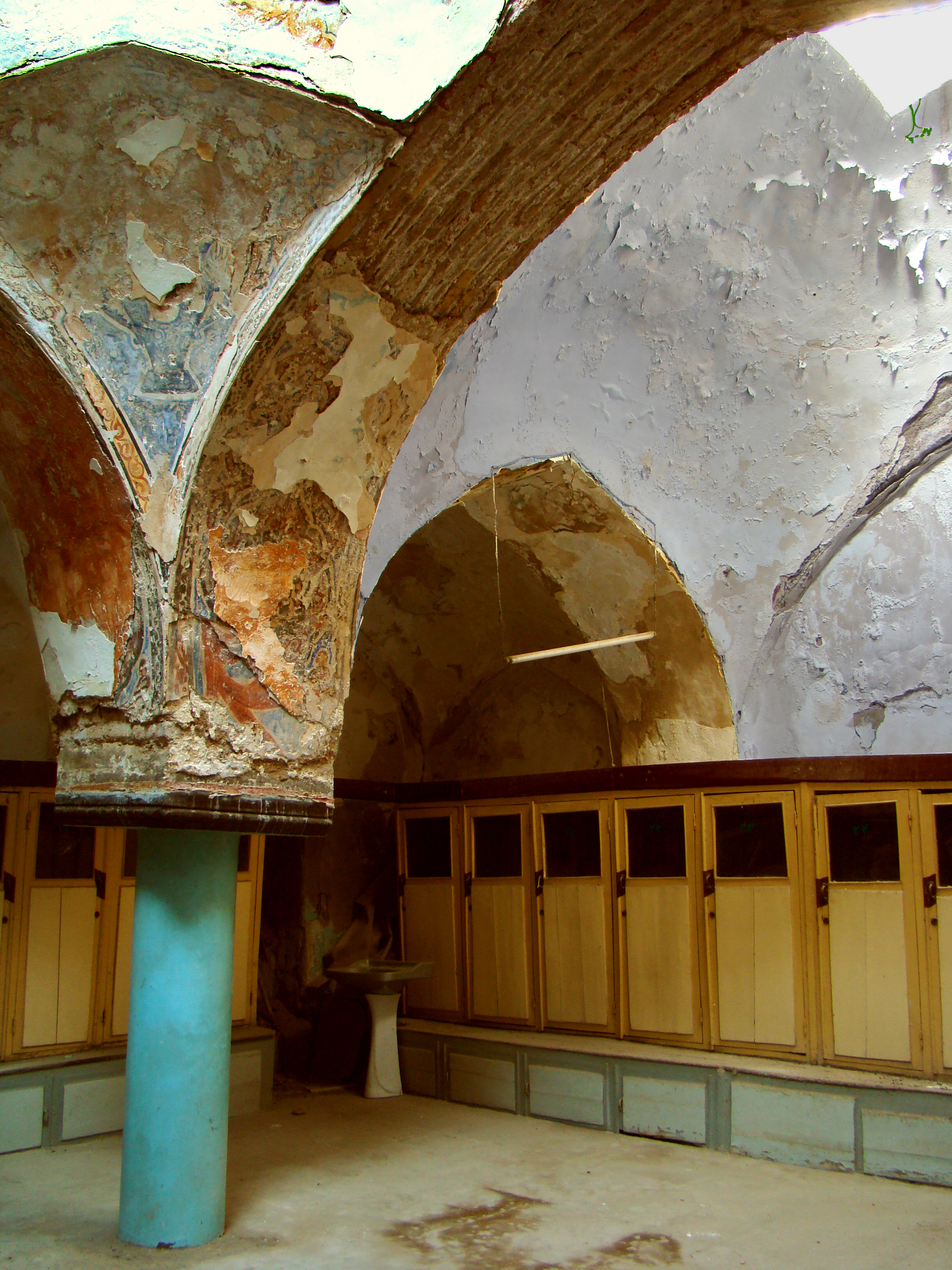 Mirza Mahdi Bathroom Locker Hall - Tabriz.